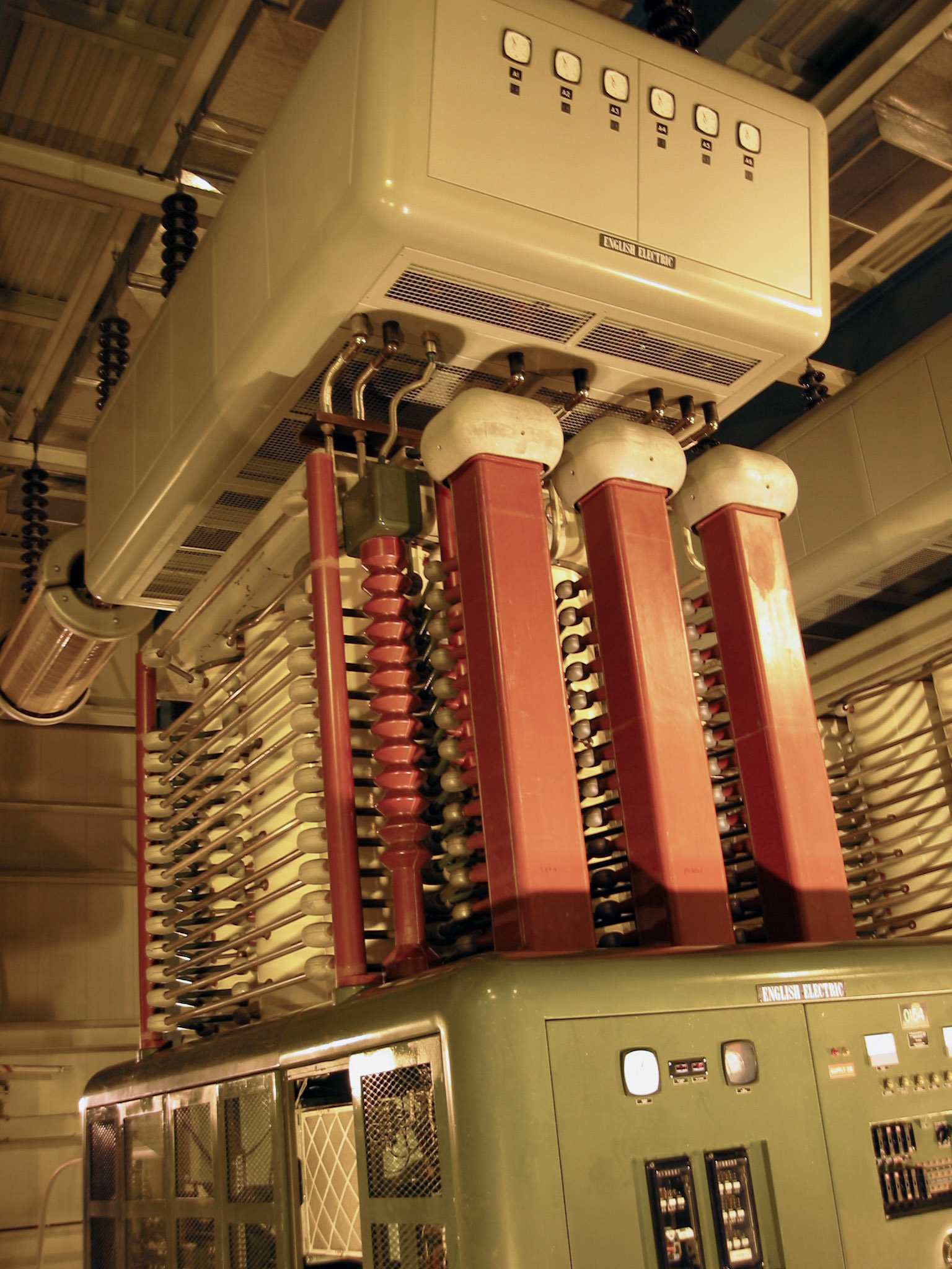 One of the English Electric mercury arc valves (a kind of rectifier) used to convert electricity from alternating current to direct current at the Manitoba Hydro Radisson Converter Station in Gillam, Manitoba. As of 2004, all of the mercury arc valves have been replaced with thyristors.